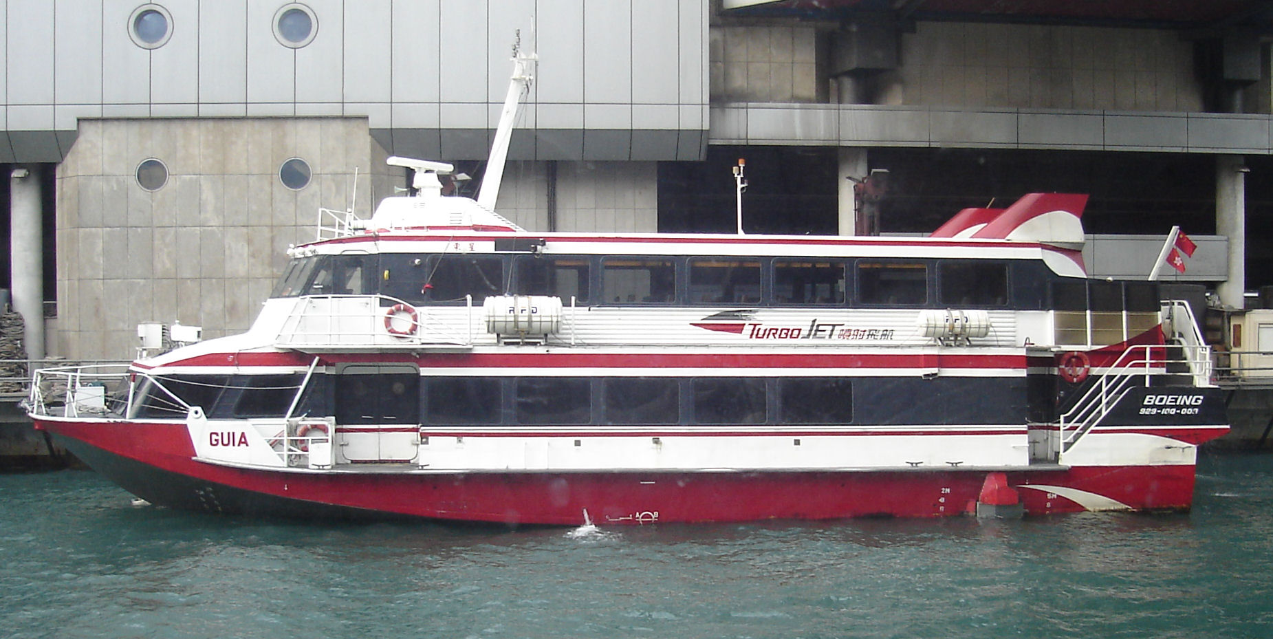 Boeing 929-100 of TurboJet, Hong Kong IMO Number: 7932848 MMSI Number: 477012000 Callsign: VRRH Length: 29 m Beam: 9 m